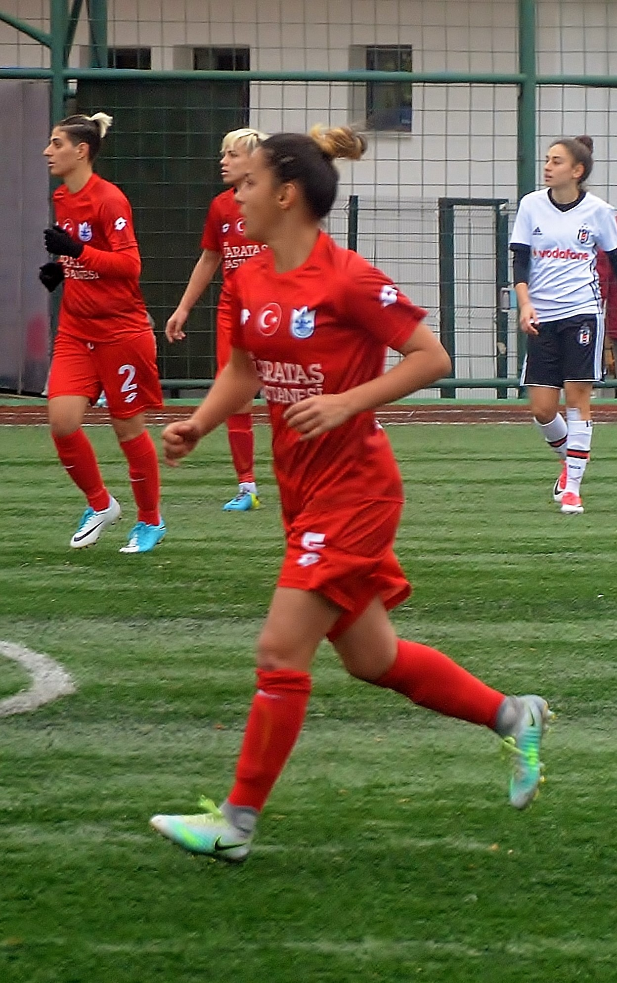 Sevinç Çorlu playing for Konak Belediyespor against Beşiktaş J.K. in the 2017-18 season's away match.